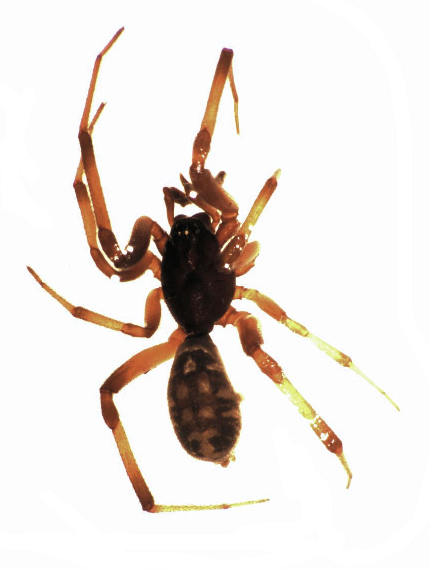 adult male Steatoda capensis